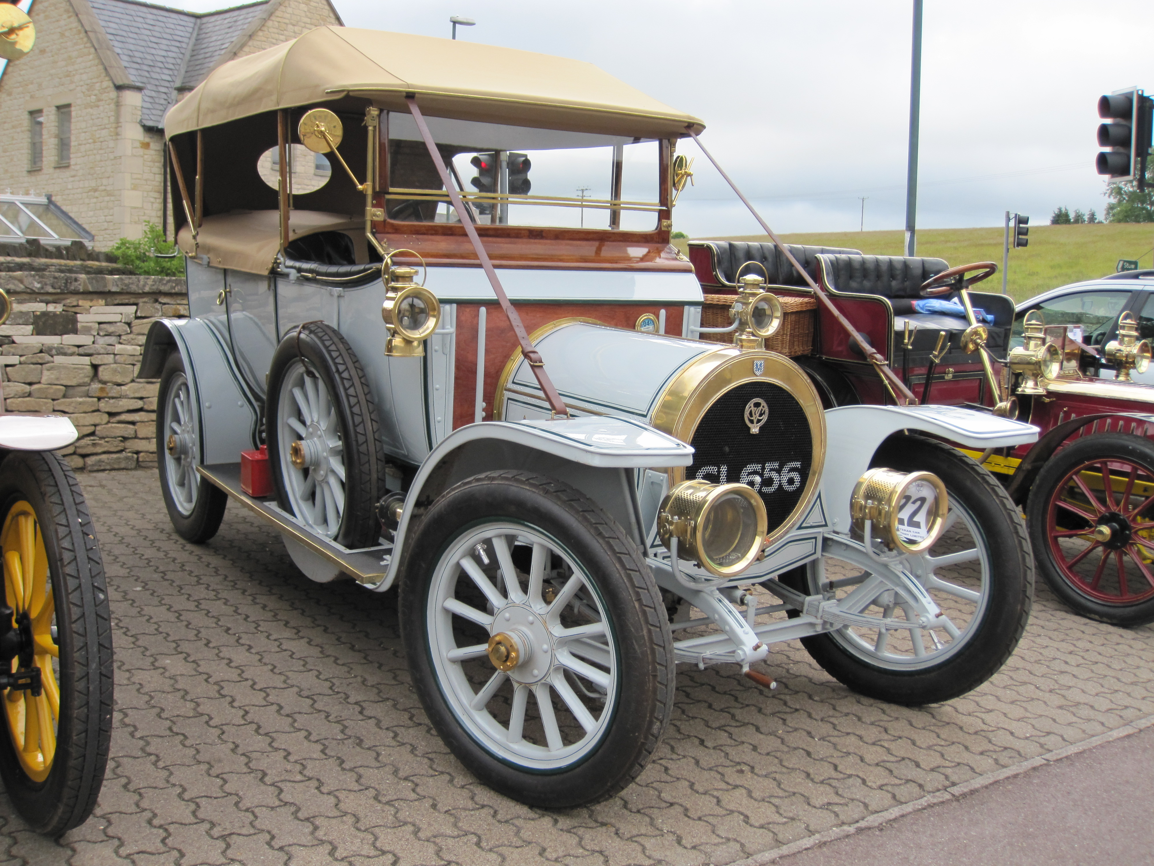 1910 Maudslay 17HP Veteran Car Club of Great Britain Cotswold Caper tour